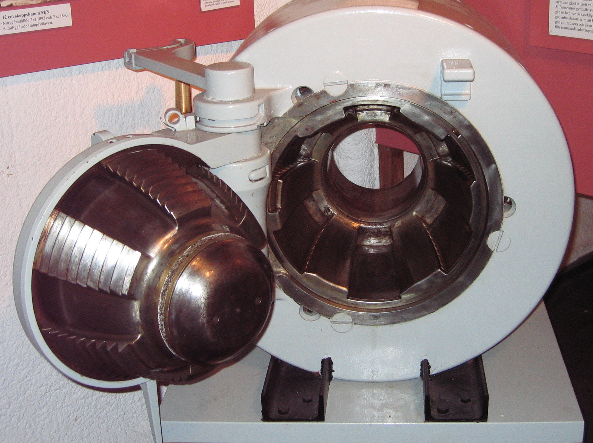 Breech of Bofors gun showing the Ogival screw constructed by Arendt Silfversparre. Diplayed in the Bofors industrial museum at Björborn, Karlskoga.